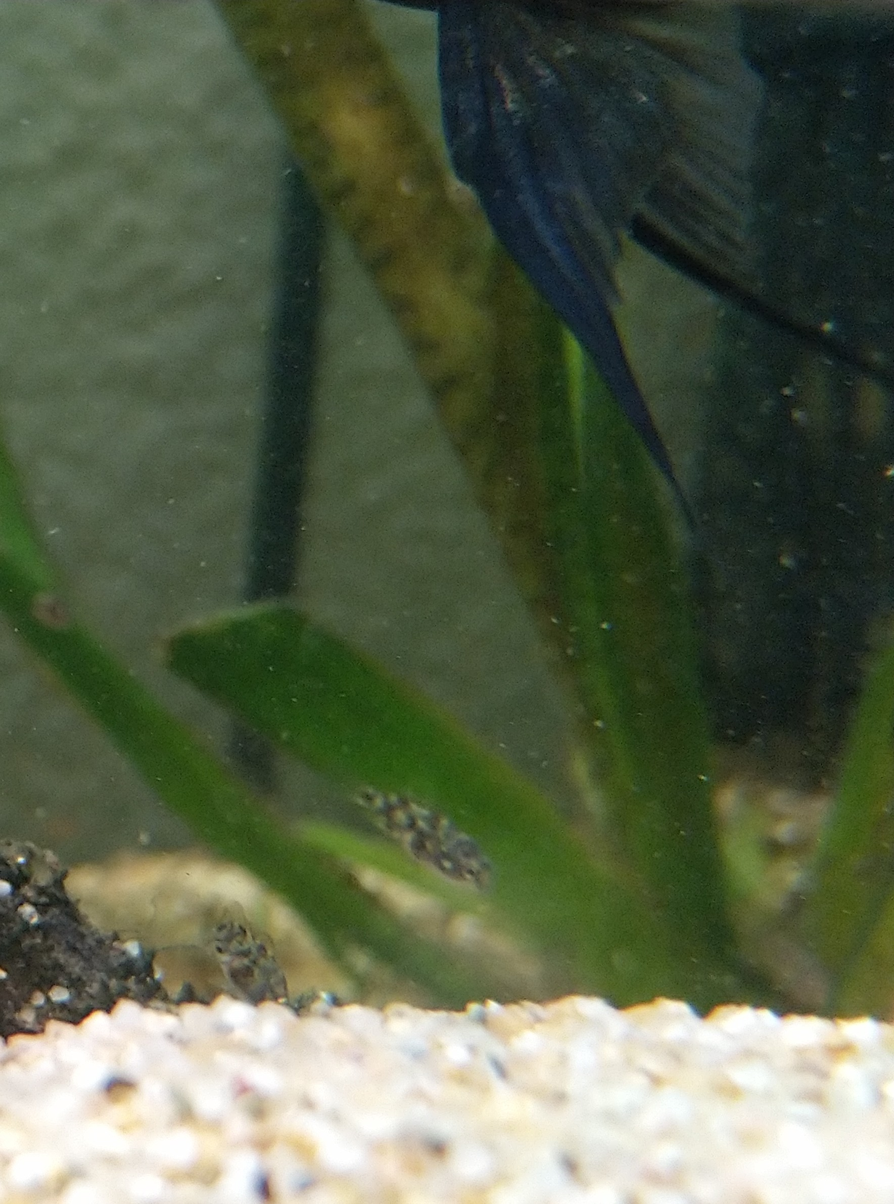 2 babies Cryptoheros Sajica